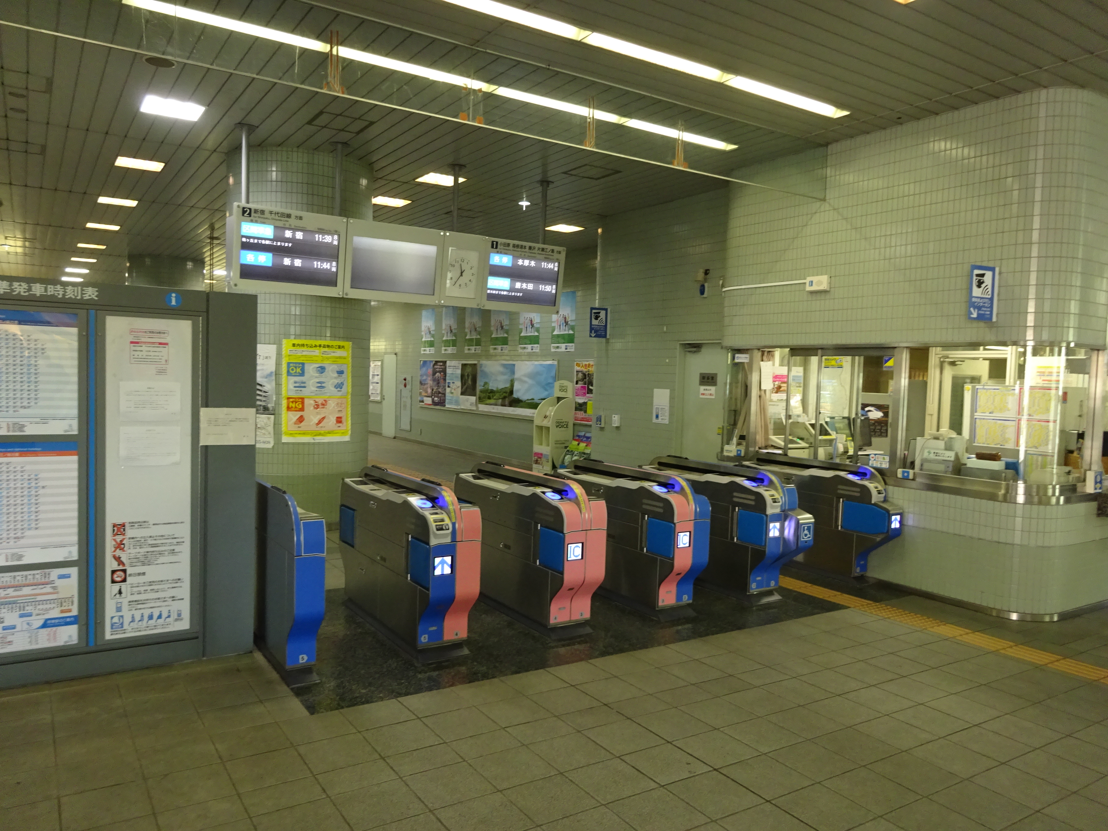 Ticket gate of Izumi-Tamagawa Station